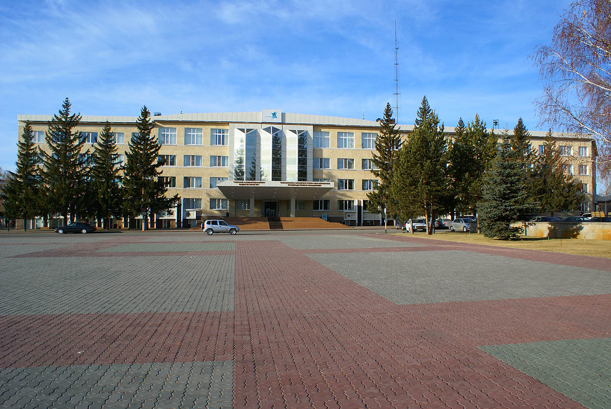 SSGPO office